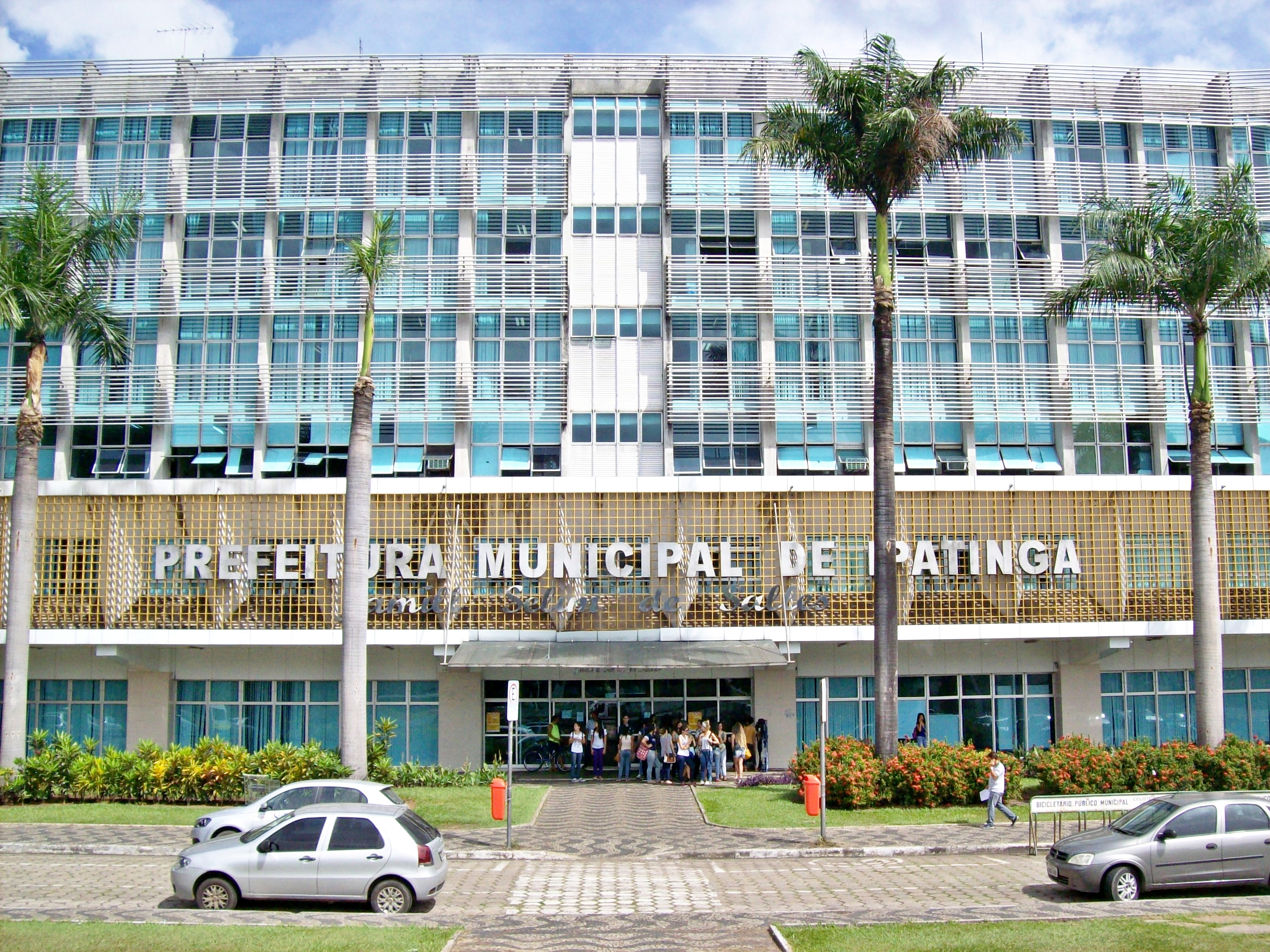 Front of the Jamil Selim José de Sales building, city ​​hall of Ipatinga, Minas Gerais, Brazil.